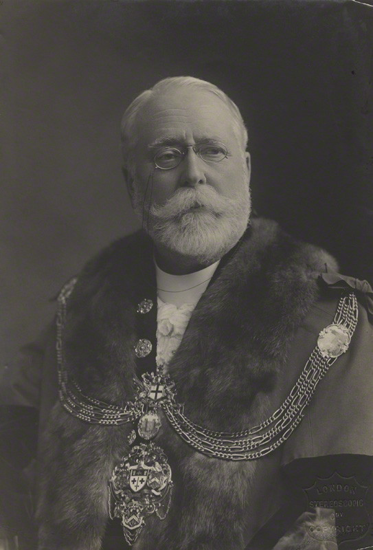 Sir John James Baddeley, 1st Baronet JP (22 December 1842 – 28 June 1926) by London Stereoscopic & Photographic Company, bromide print on paper mount, 1921